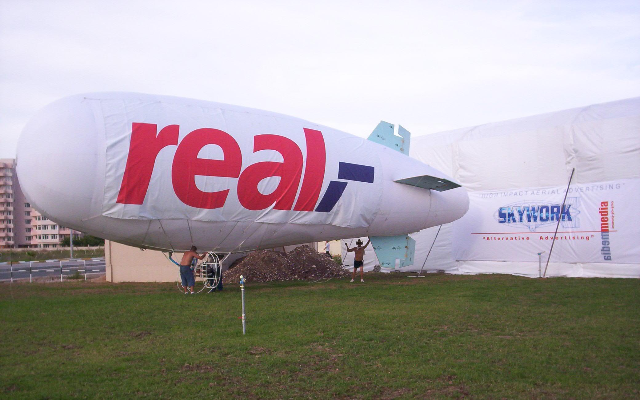 "Zeplin Reklam" C Airship (60FT / 18M)